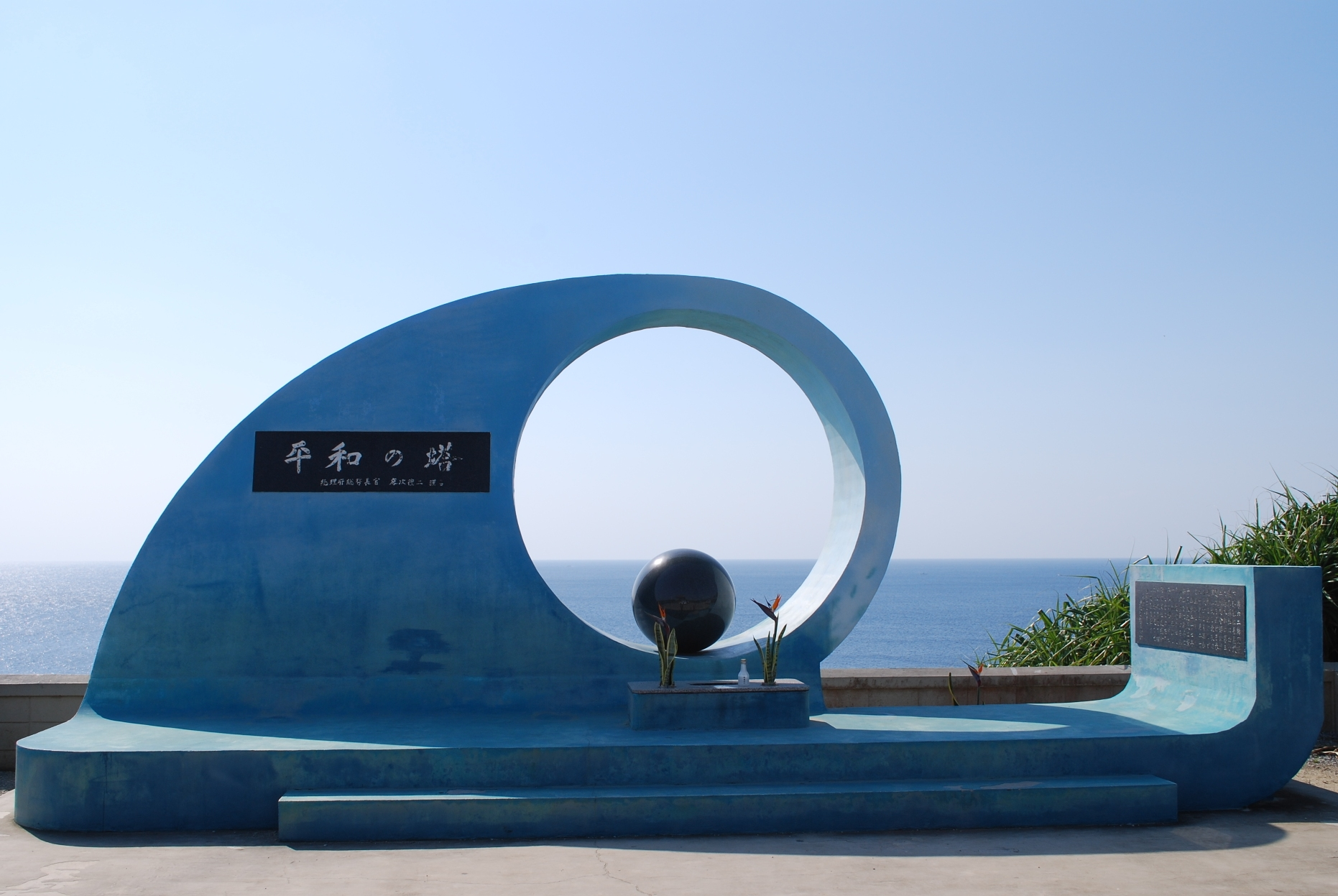 The Peace Monument at the Cape Kyan, Itoman, Okinawa Prefecture, Japan